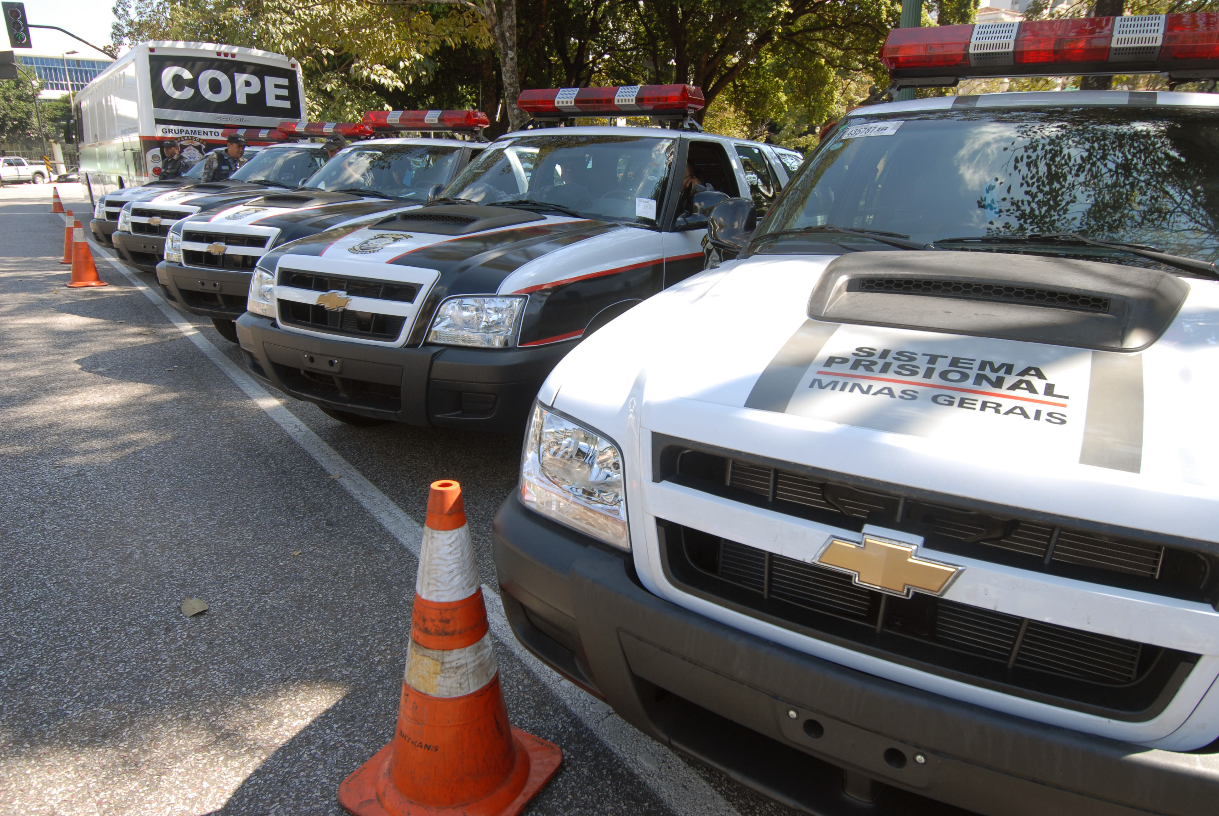 Delivery of new vehicles for security forces of Minas Gerais